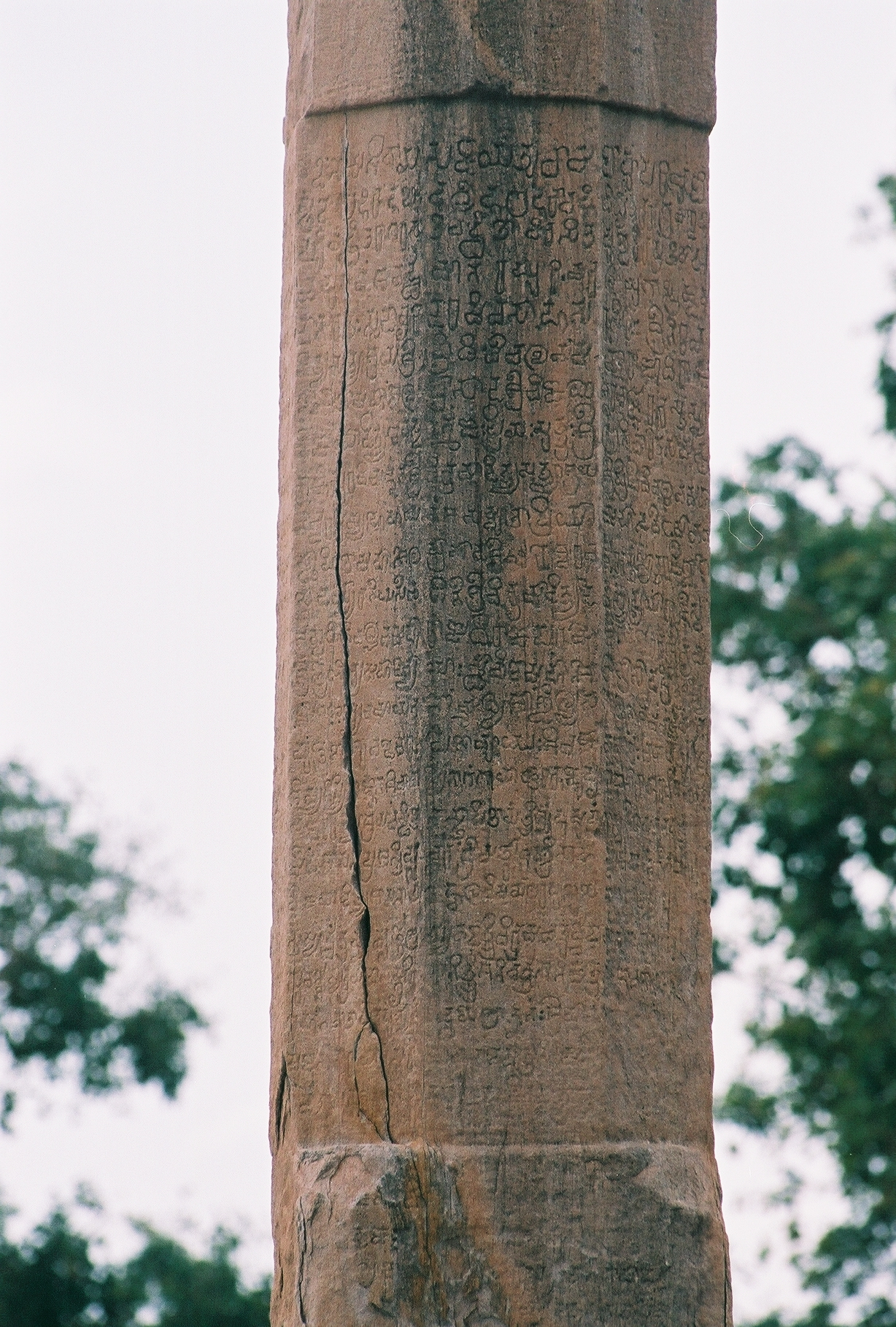 The victory pillar inscription in Kannada language in front of the Virupaksha Temple at Pattadakal, Karnataka, dated to 733-745 CE describes the victories of Badami Chalukya King Vikramaditya II over the Pallavas of Kanchipuram.